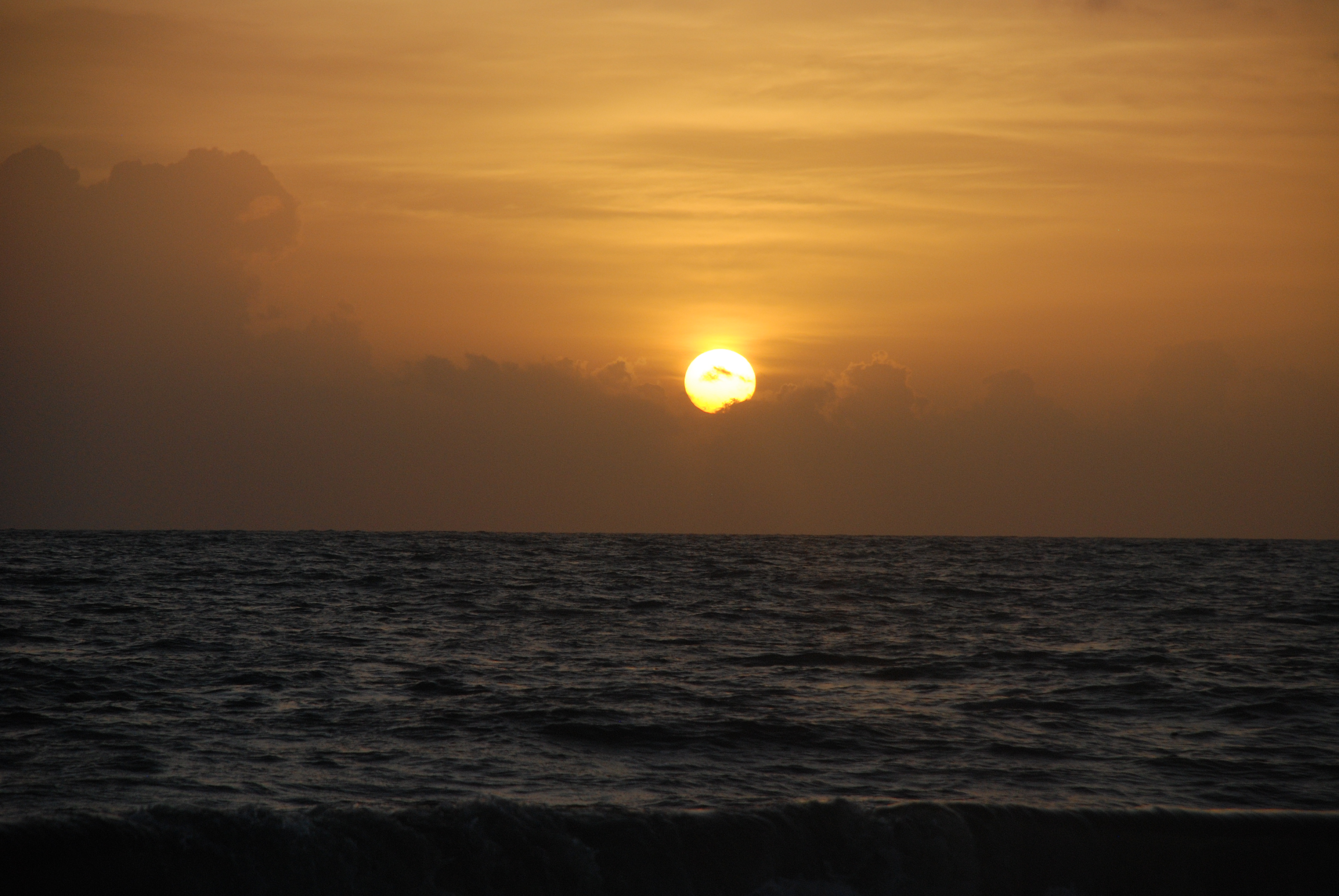 People like to talk about the various sunrises and sunsets they have seen all over the world - The Alps , Hawai etc. The Title of this picture is "Better" as it is taken in India from Mararikulam , Kerela. Where the Indian economy stays in India!